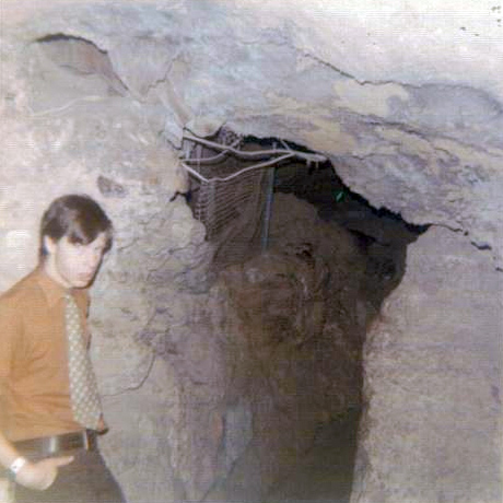 I took picture with Kodak camera.